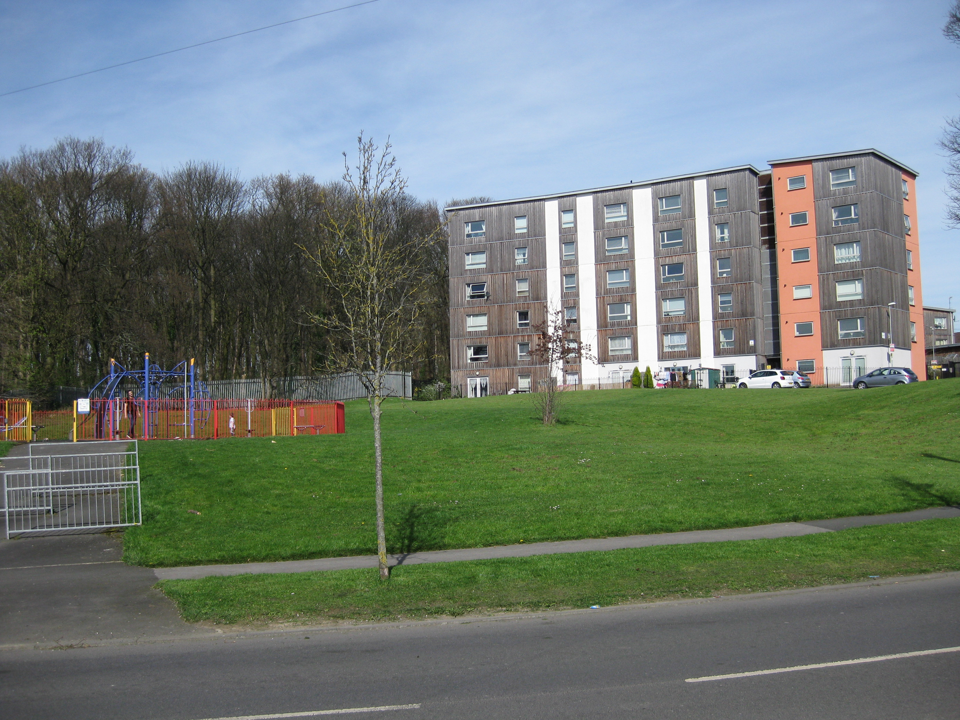 View of flats, part wood facing, on Elmet Towers (the name of the road, after demolished buildings) with a green, a children's playground and part of Great Swarcliffe Wood. View from Swarcliffe Drive.